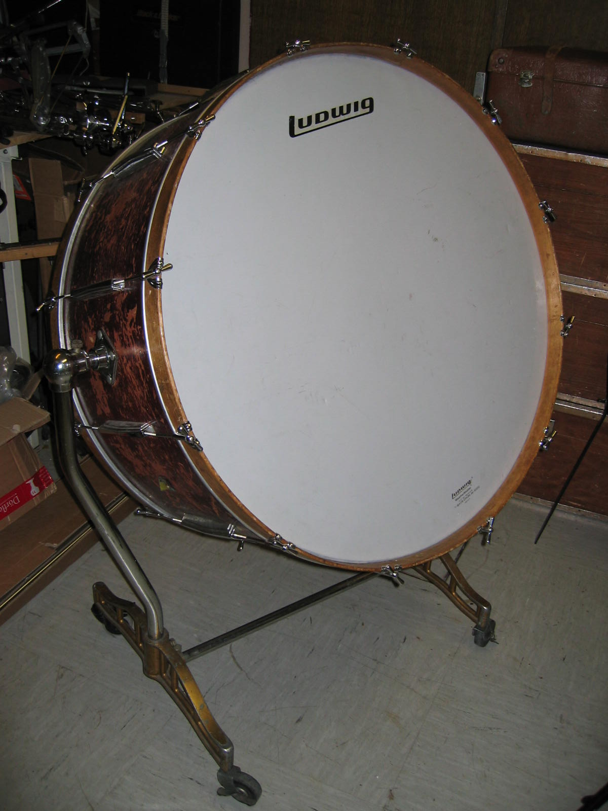 Orchestral bass drum